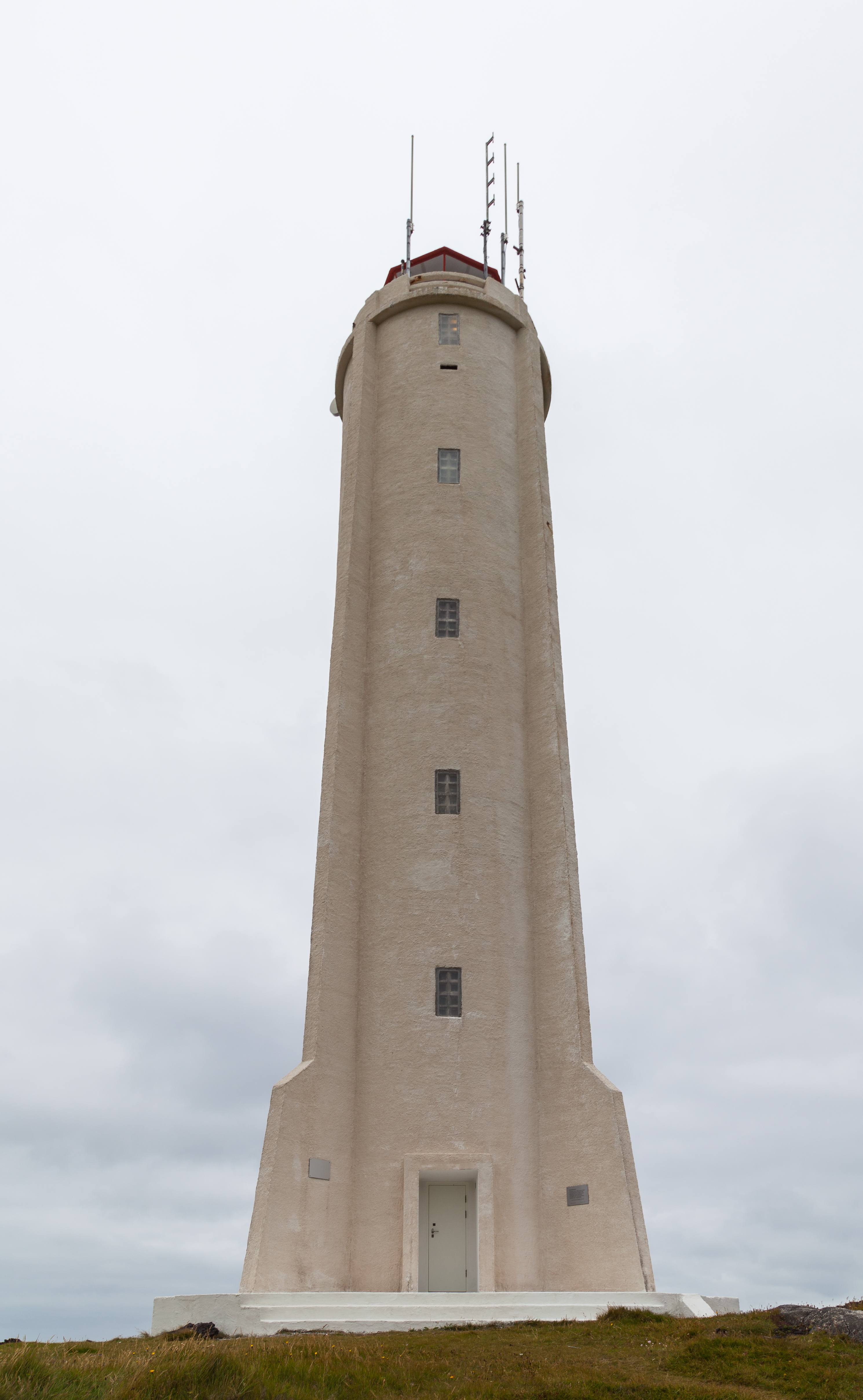 Malarrif lighthouse, Vesturland, Iceland